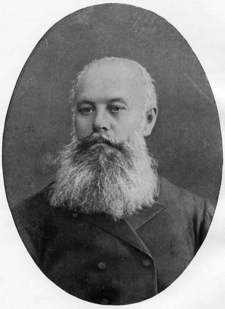 Vasily Dokuchaev during an expedition in 1895.